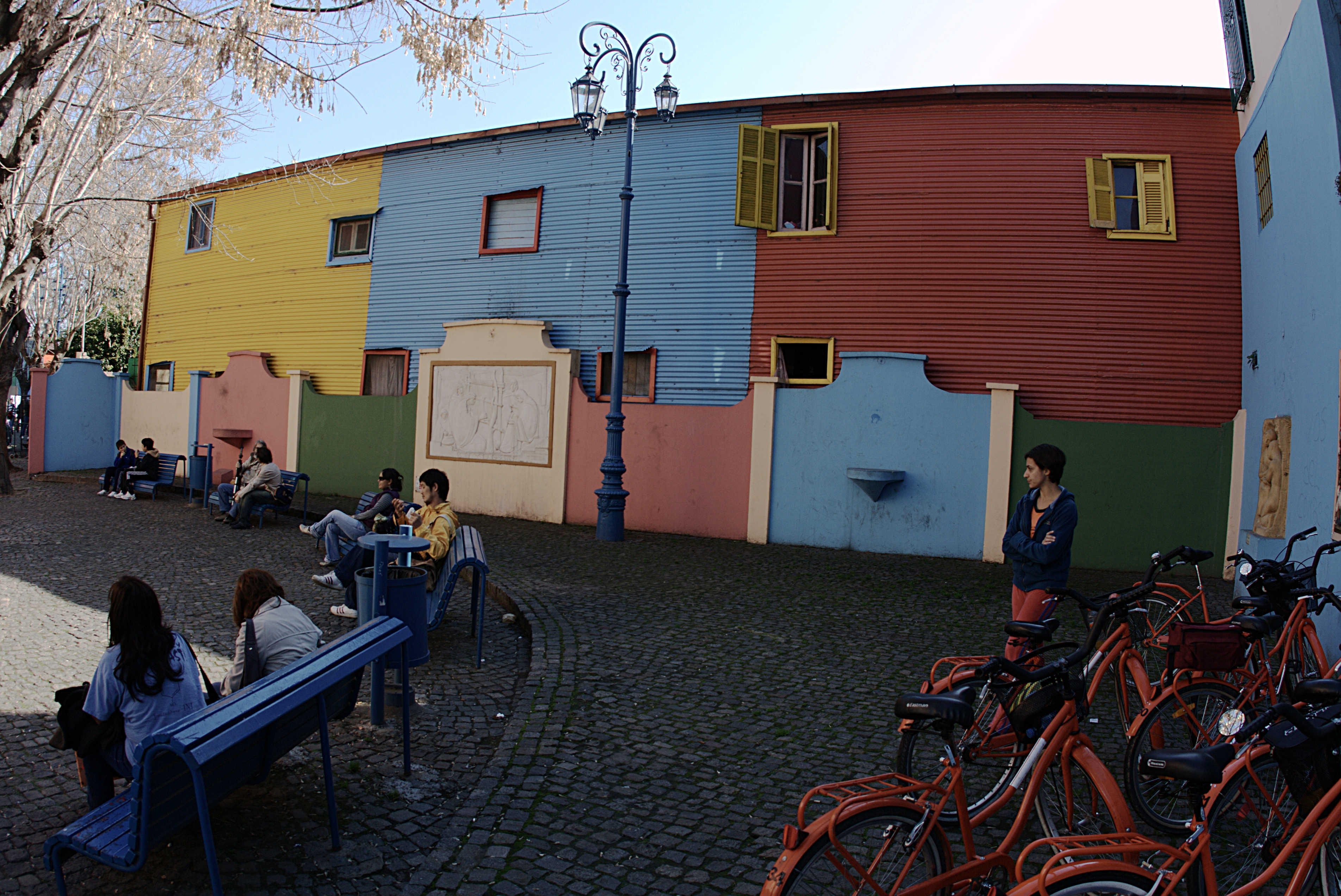 Corner near Caminito, La Boca, Buenos Aires, Argentina.